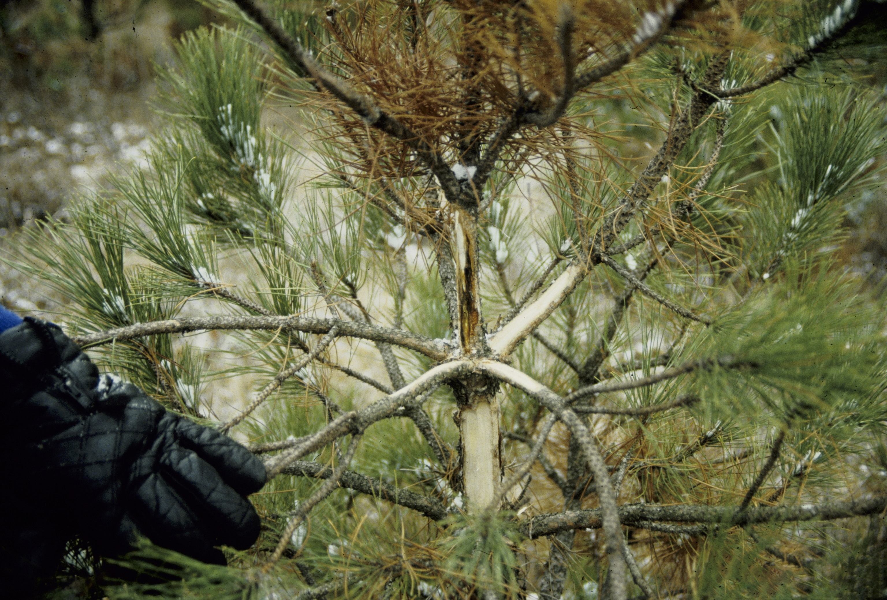 Top dieback caused by Diplodia pinea in red pine (Pinus resinosa Soland). Bark has been removed to show the dark staining in the wood caused by Diplodia, United States